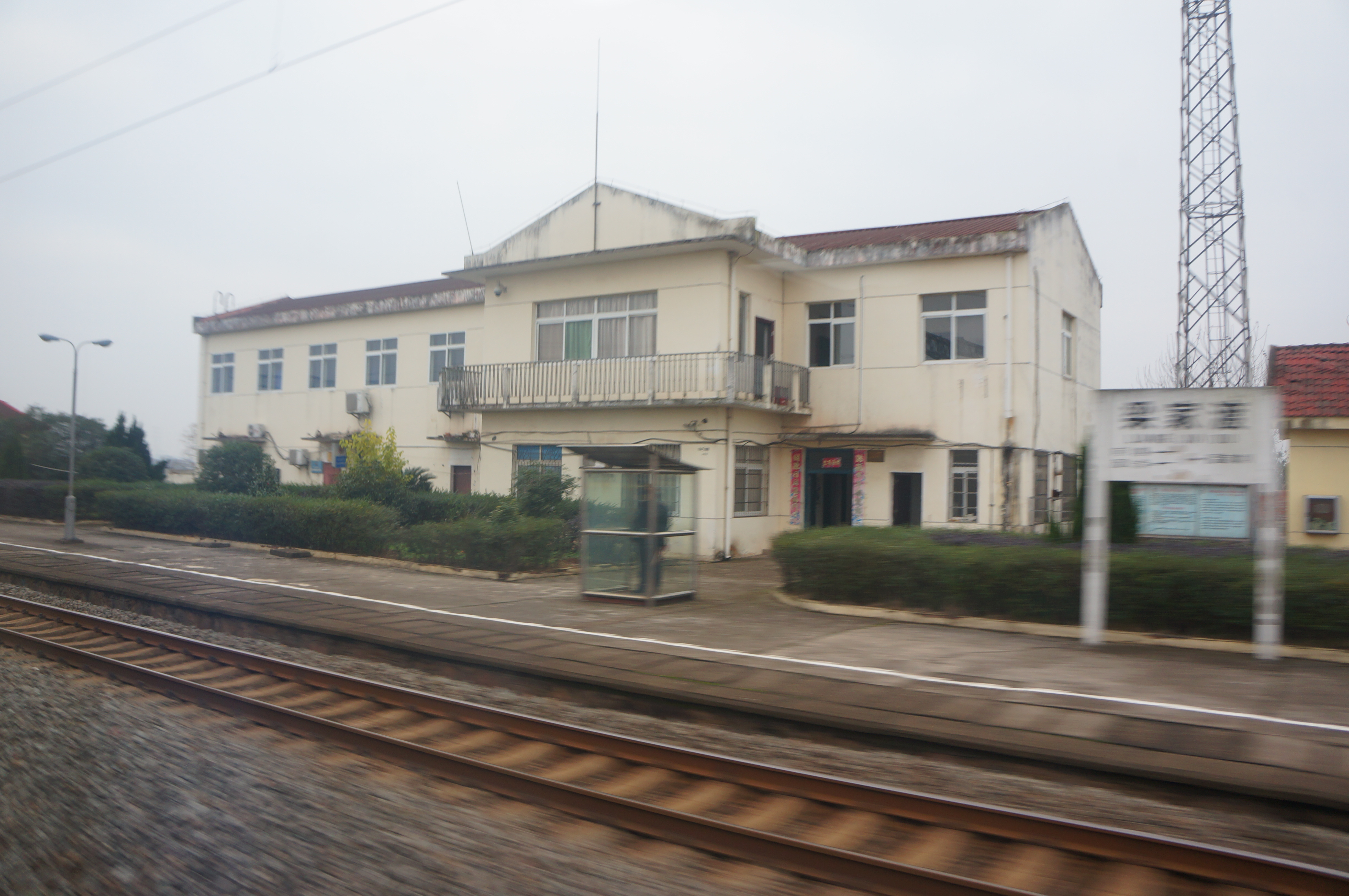 201612 Liangjiadu Station building 2